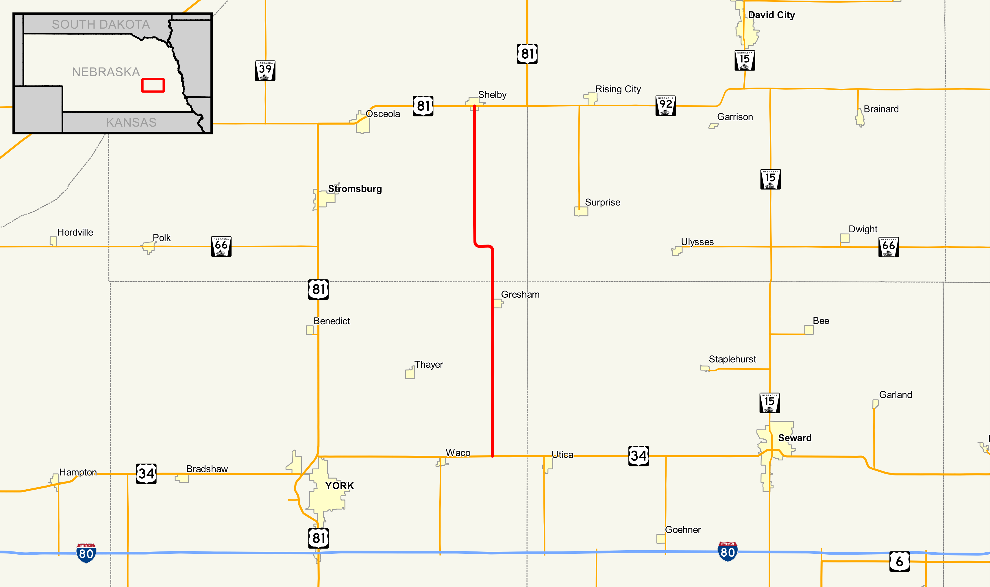 Map of Nebraska Highway 69 Data Sources: Nebraska Highways - - Dec 2016 Nebraska County Boundaries - - Dec 2016 Nebraska City Boundaries - - Dec 2016 This PNG graphic was created with QGIS